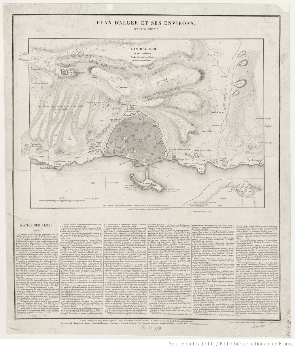 Engraved drawing showing the harbor and the city of Algiers raised for disembarkation by the French Empire